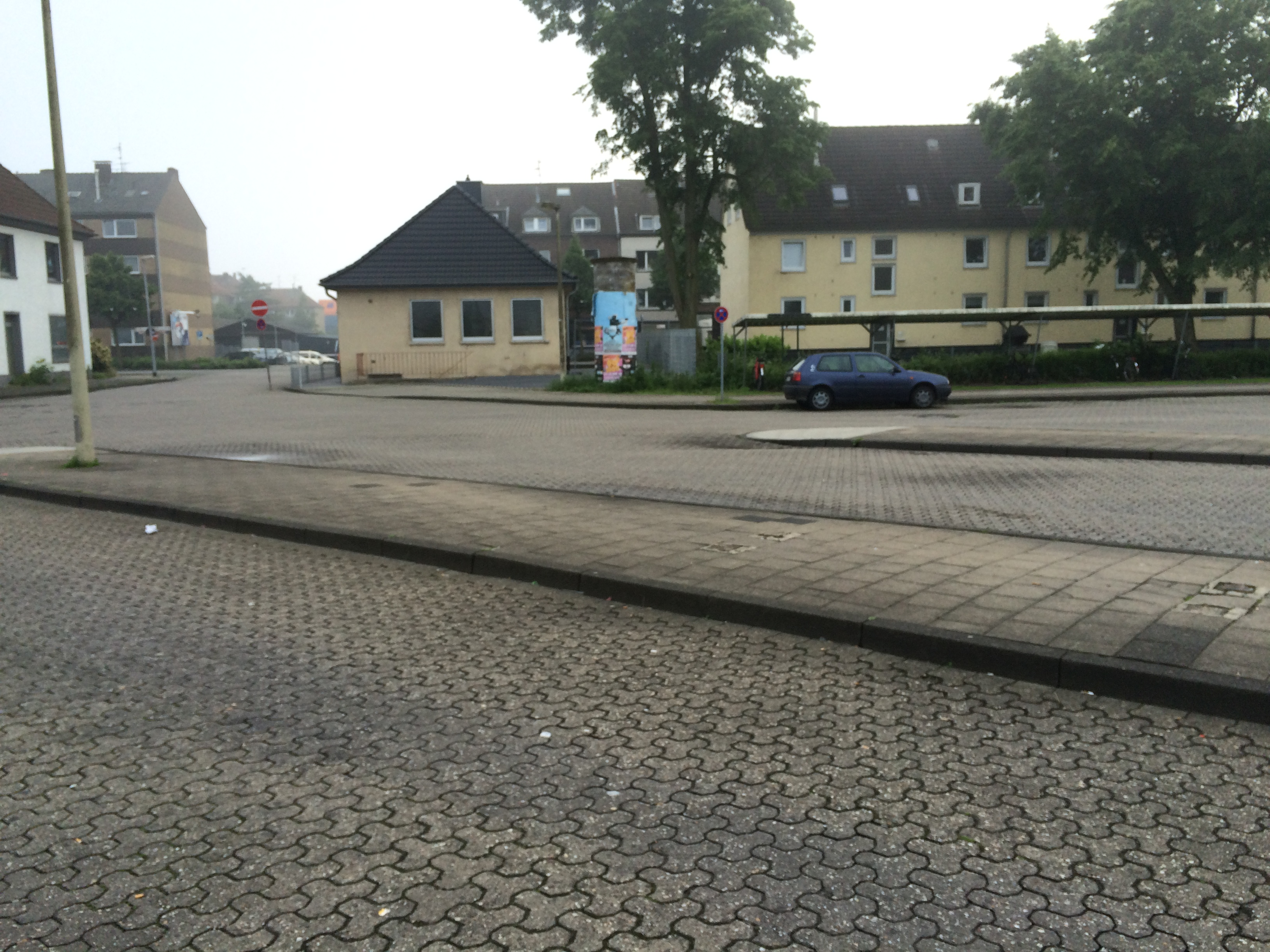 The bus station of the station in Emmerich, Germany.